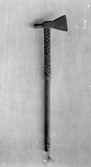 Pipe tomahawk